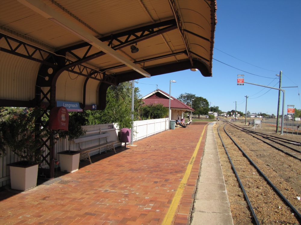 Longreach Railway Station platform view (2013)